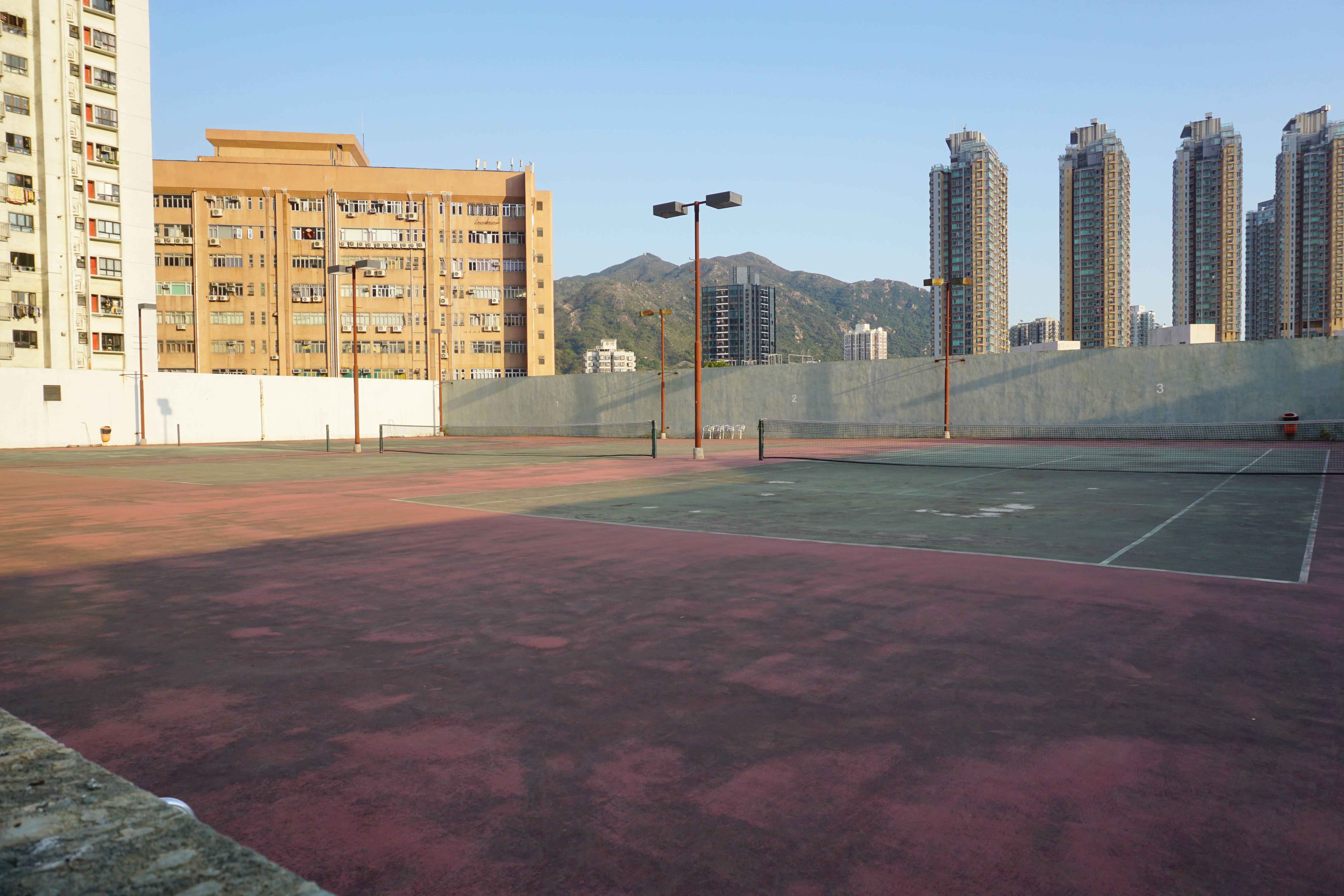 Tai Hing Gardens in Tuen Mun, Hong Kong.